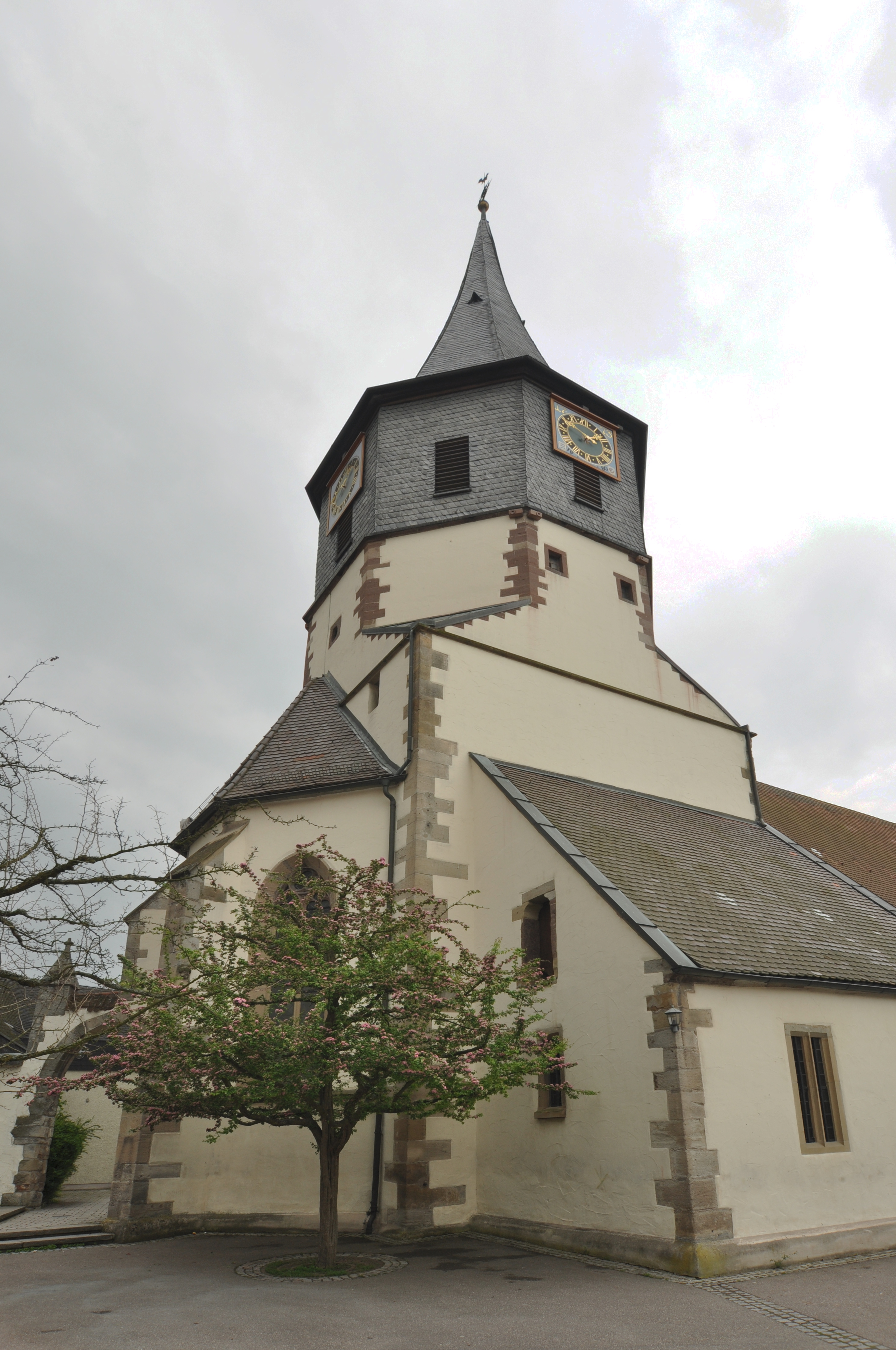 Vaihingen an der Enz-Horrheim, protestant parish church